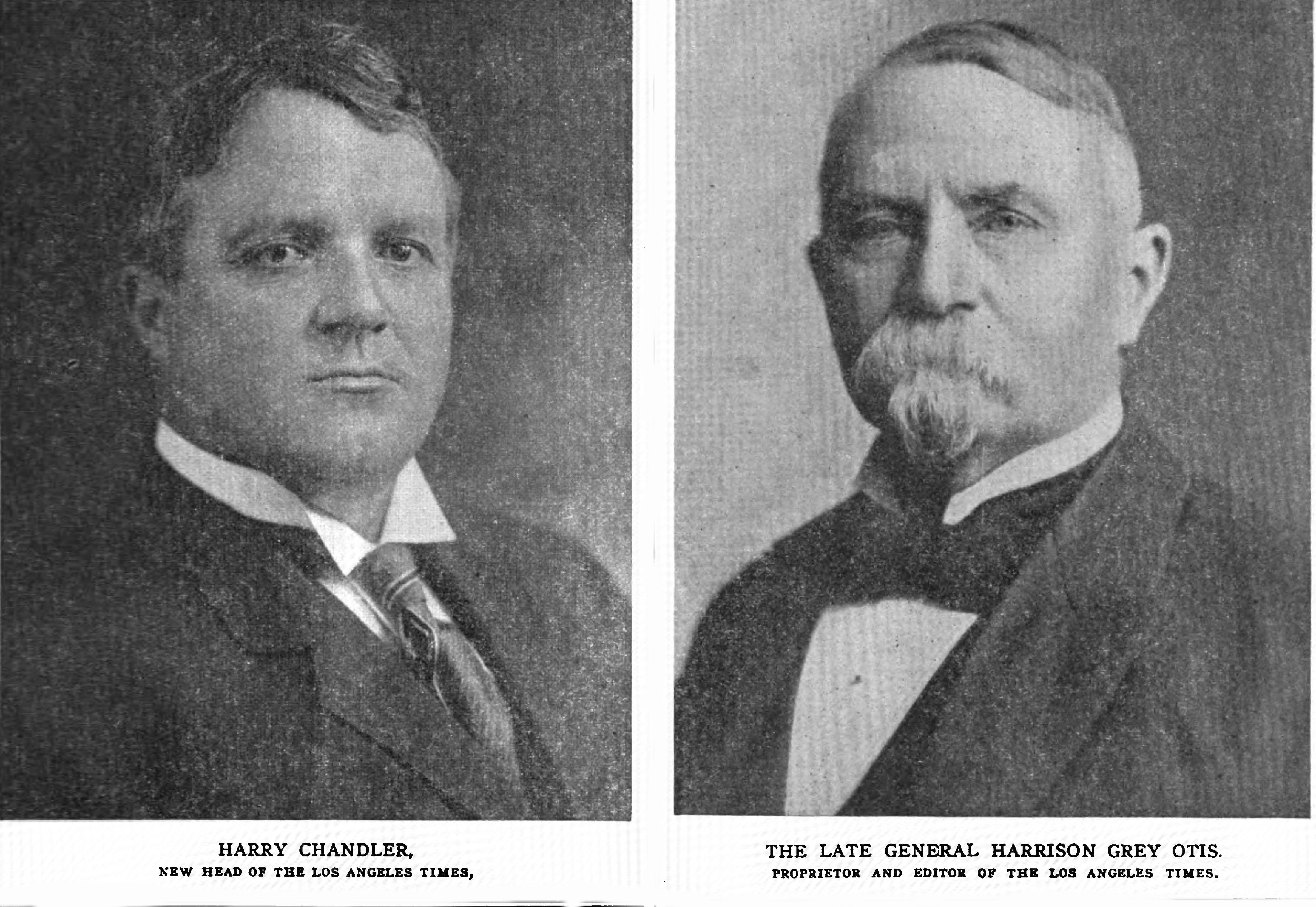 Harry Chandler and Grey Otis of the Los Angeles Times (1917)